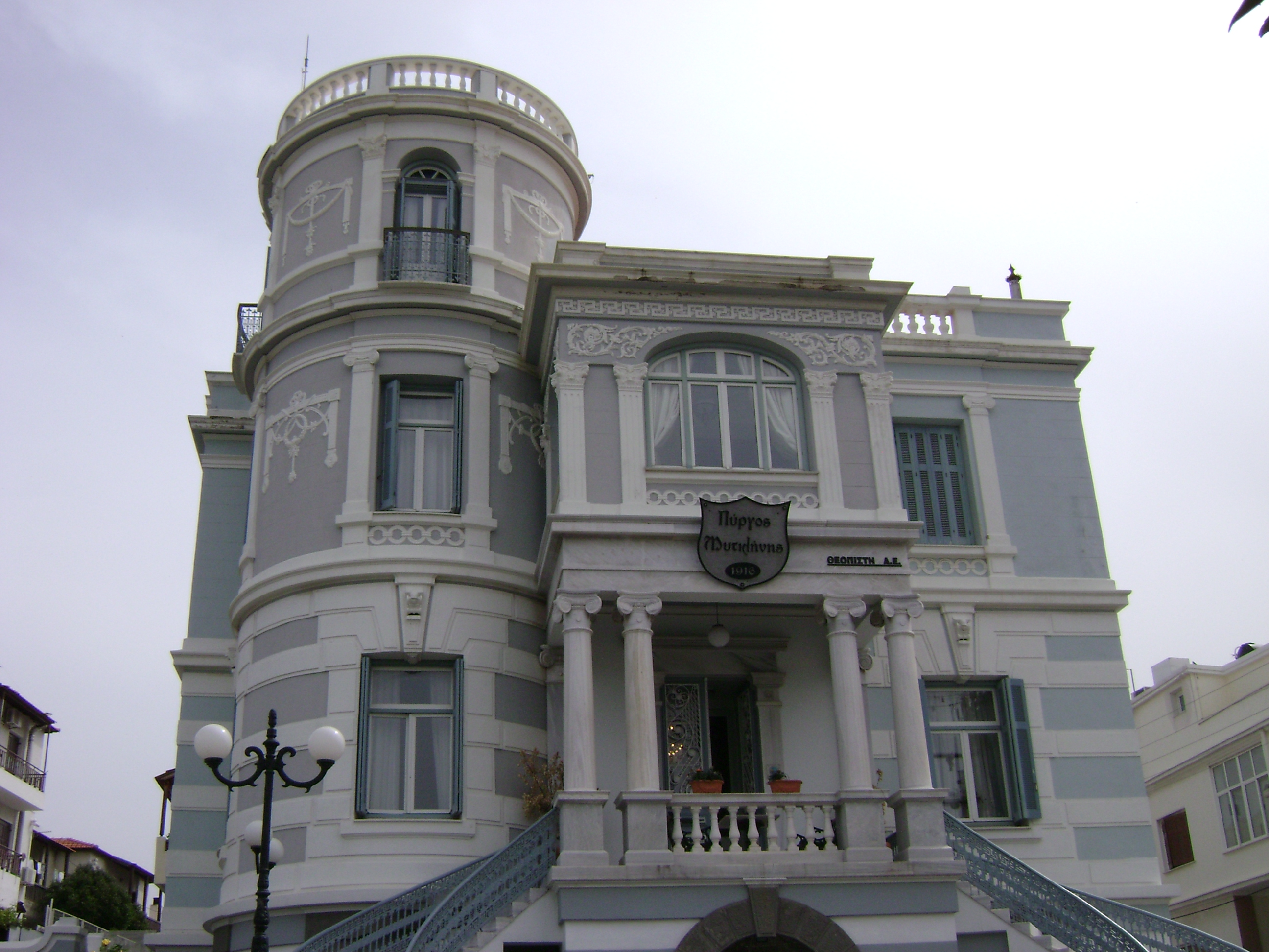 The famous belle epoque architecture style and an expensive hotel named Pyrgos Mytilinis/Πύργος Μυτιλήνης on El.Venizelou street, Souradha, Mytilini.